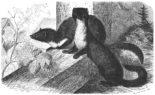 Steenmarter of Fluwĳn (Mustela foina). Currently: Martes foina